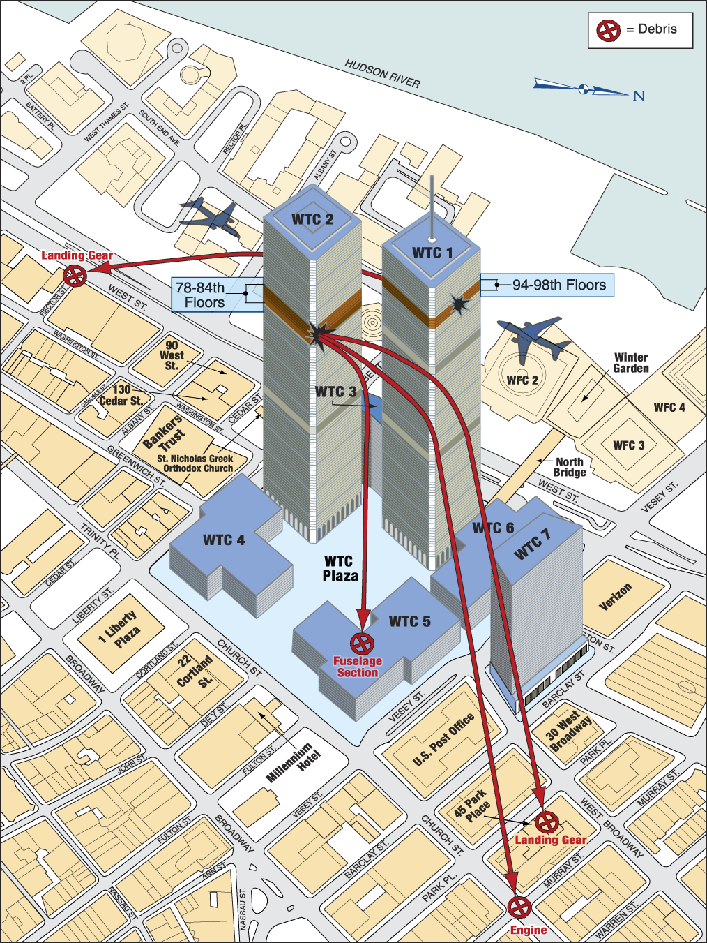 Graphic. WTC aircraft debris imacts, Sept 11, 2001.